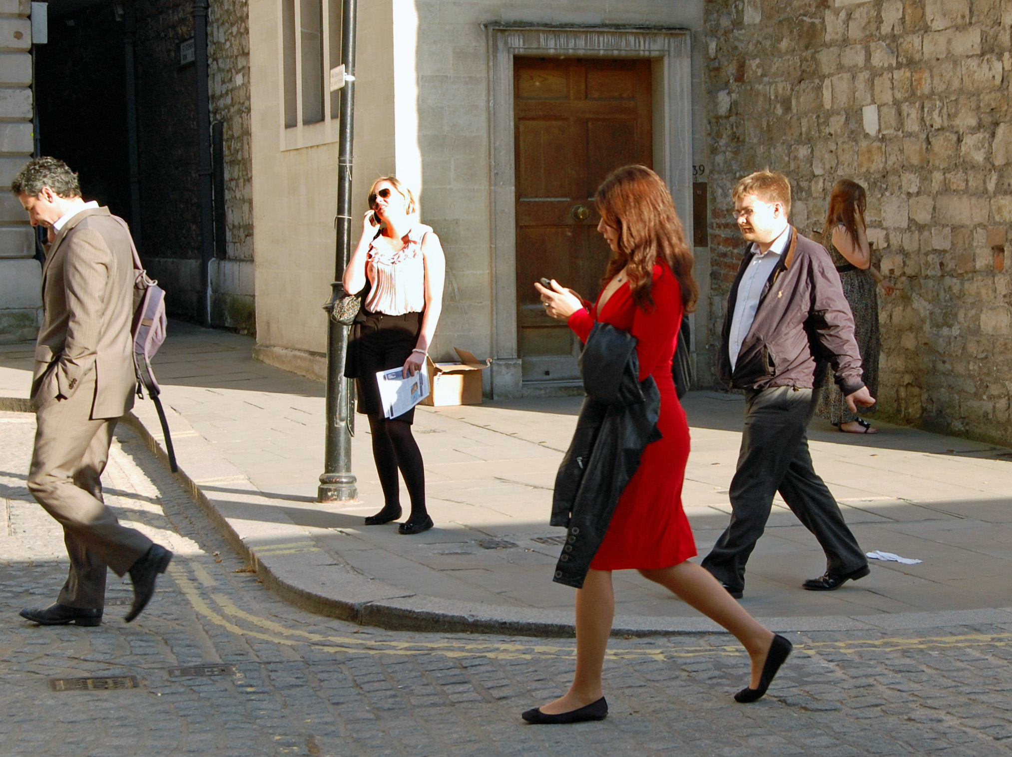 A woman using her smartphone in London in 2011.